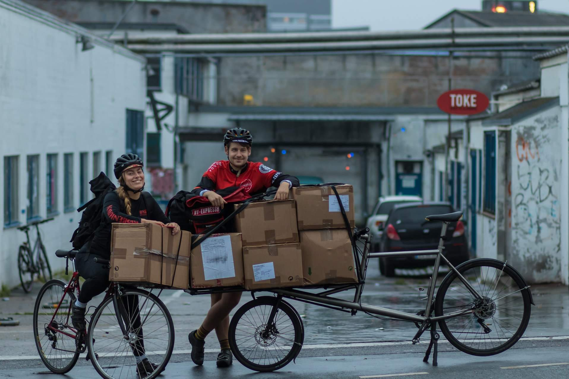 Bike messengers at work in Copenhagen. The business for bike messengers is in constant change due to development of technologies. Nowadays a lot of bike messengers use cargobikes to be able to transport greater volume.